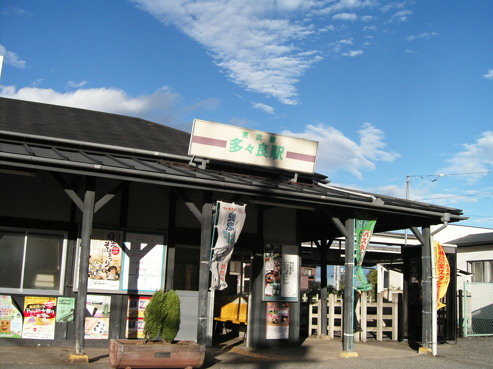 Tobu Railway Tatara Station in Gunma pref. in Japan